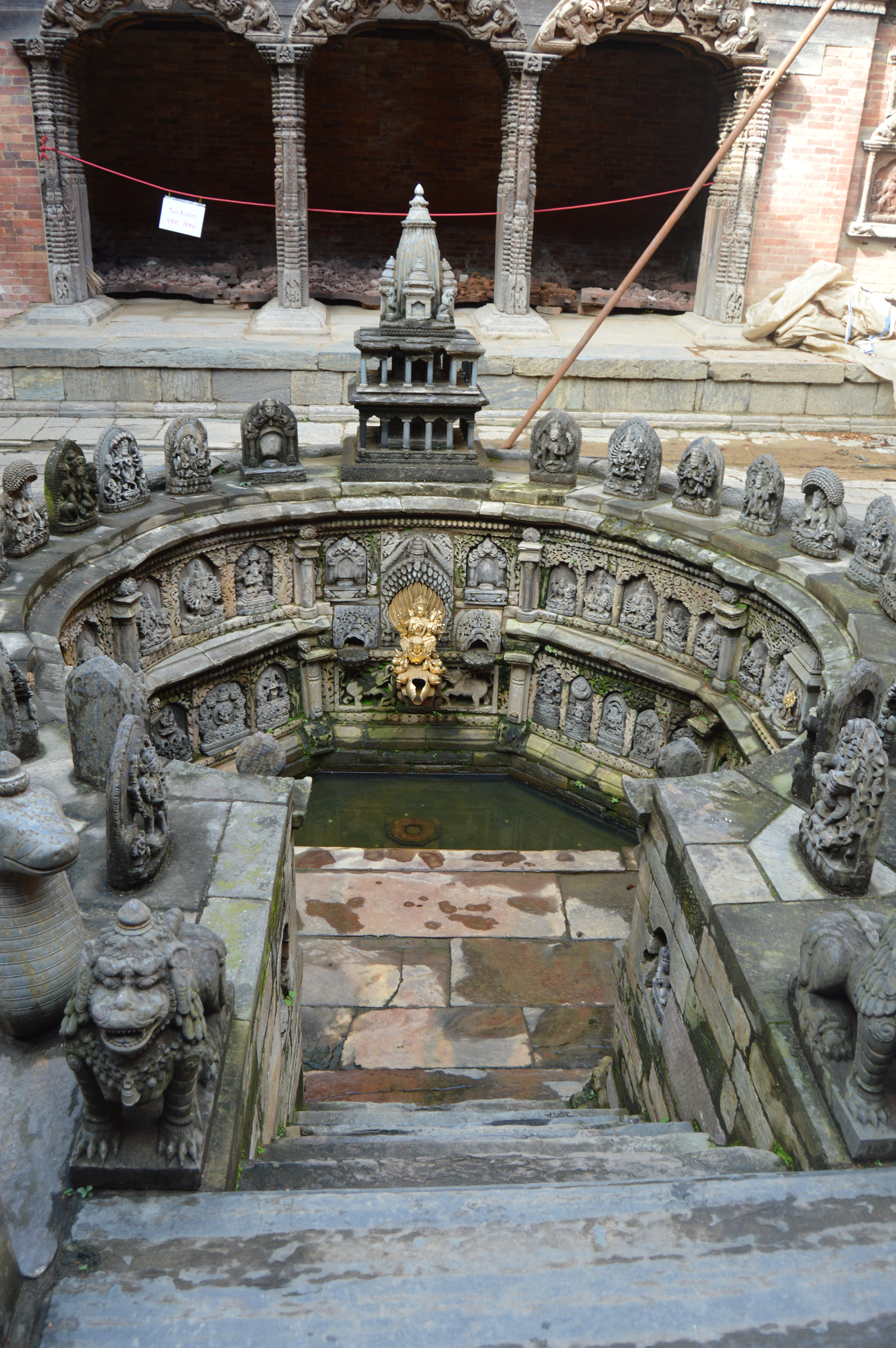 Tusa hiti.The Oval-shaped, slightly cusped Tusha Hiti step-well was commissioned in 1647 by King Siddhinarasimha Malla, Probably to perform ritual ablutions. The fountain in furnished with a gilt bronze spout supporting an image of Laksmi-Narayan on Garuda. Its retaining walls are divided into registers of niches, each of which is fitted with a tantric divinity carved in stone or gilt metal. A miniature stone replica of the Krishna Mandir sits on its main axis, and a protective serpent encircles the brink.